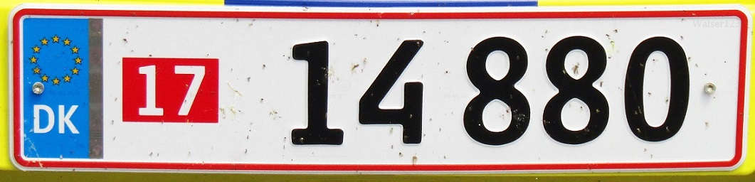 2017 DK temporary export license plate, seen in Vaduz, Liechtenstein